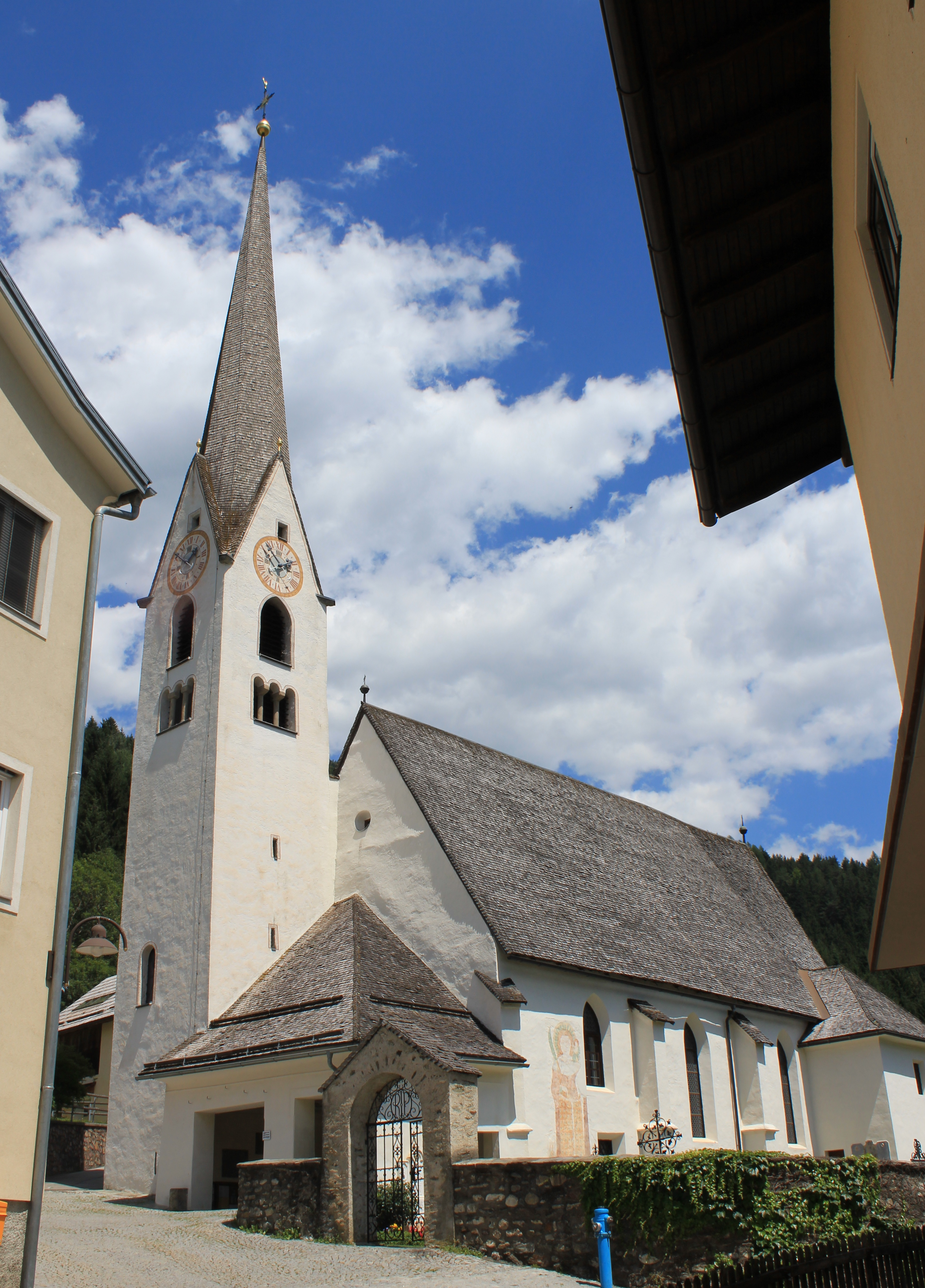 Parish church Irschen